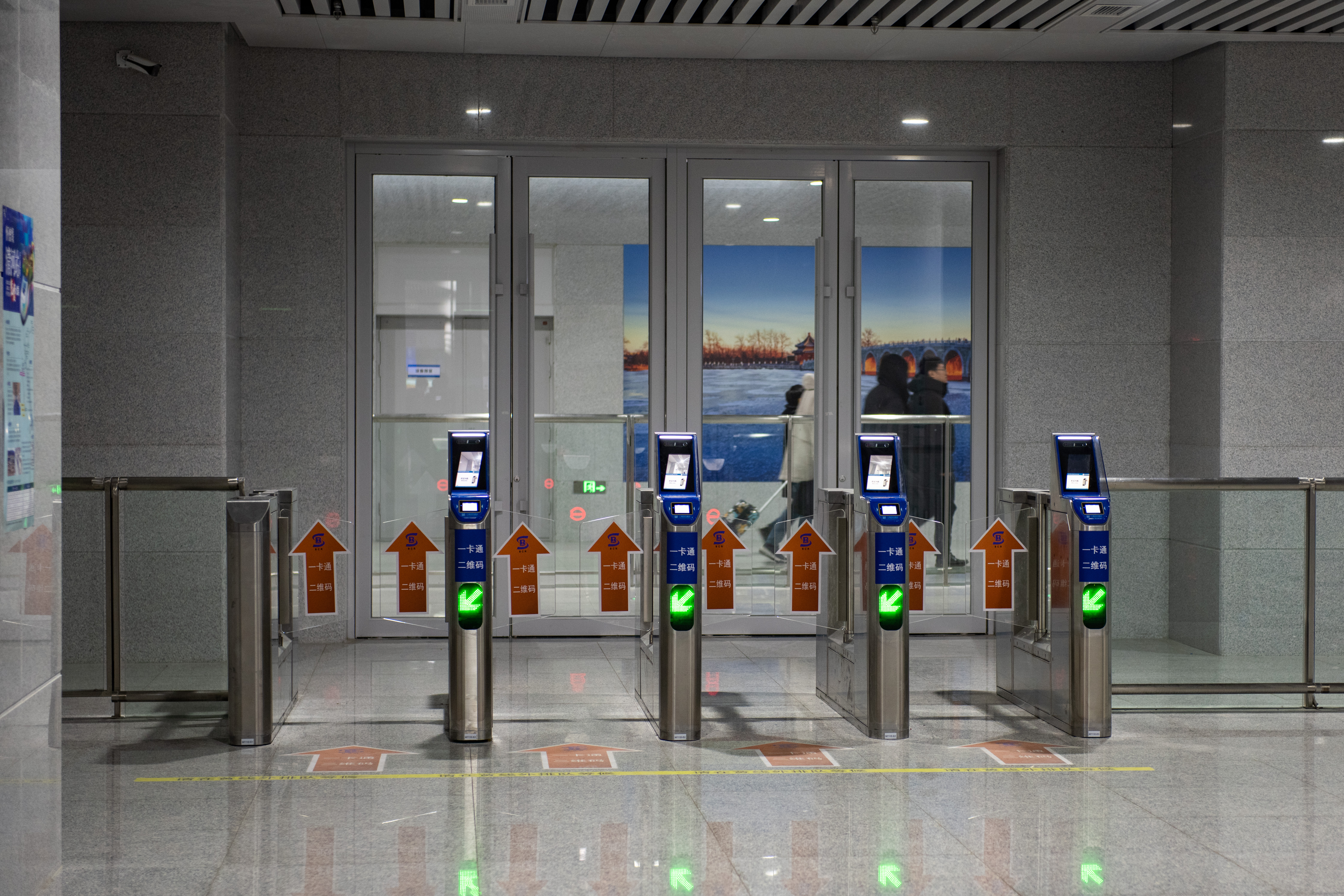 For BMAC card holders or QR code on Yitongxing.